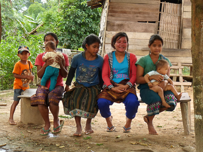 Ban Huay Hao, a Khmu village, Bokeo Province, Laos.